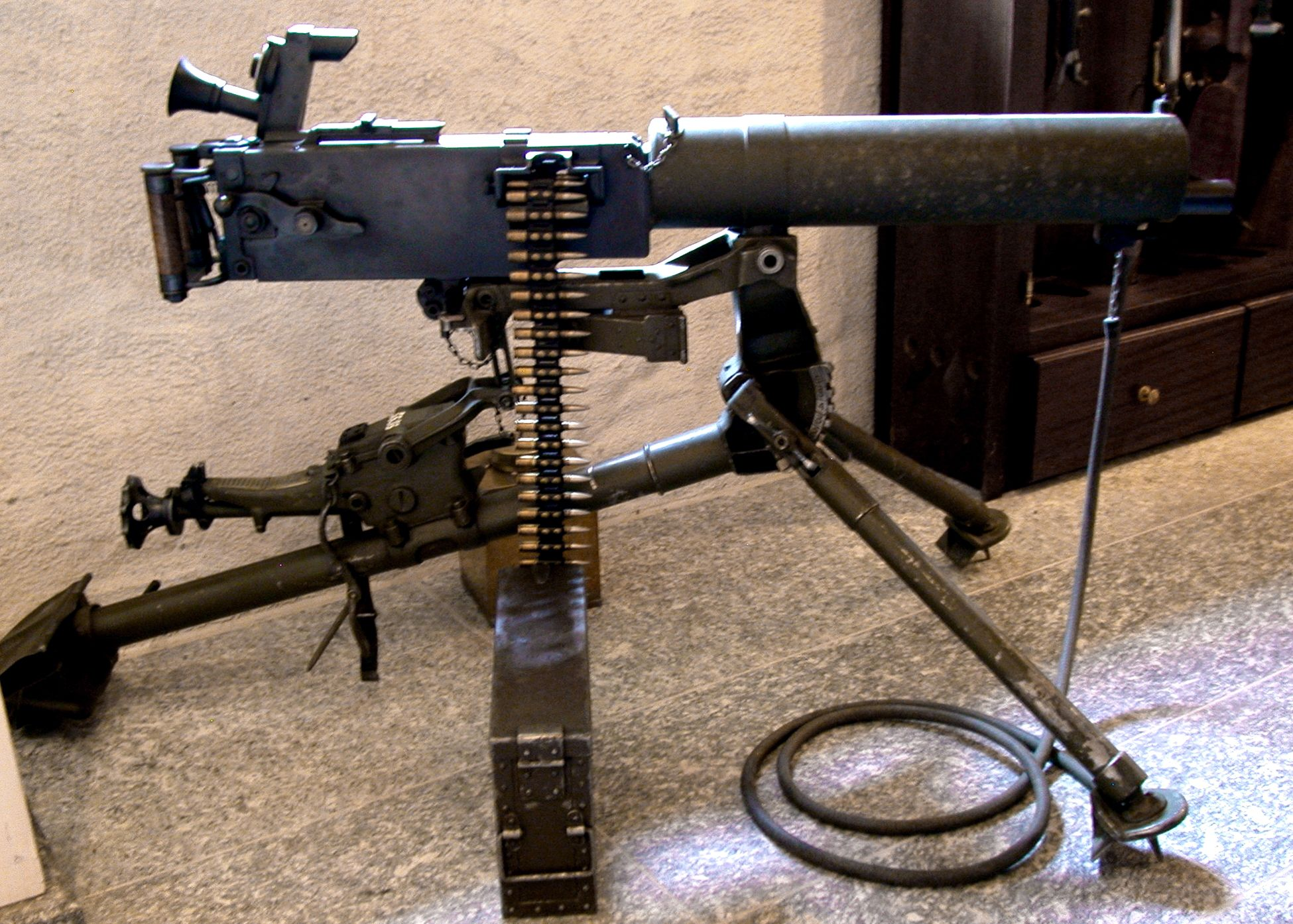 Swiss Maxim Machine gun Model 1911, cal 7.5 mm